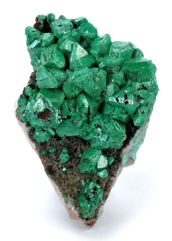 Adamite (Var.: Cuprian Adamite) Locality: Tsumeb Mine (Tsumcorp Mine), Tsumeb, Otjikoto (Oshikoto) Region, Namibia (Locality at ) Size: 4.3 x 2.7 x 1.8 cm. Massive quartz is the host for this cluster of equant, lustrous, apple green, crystals of cupro-adamaite, 5mm across. Vivid coloration and extremely sharp "pseudo-octahedral" form mark this as a superb, competition-level miniature for this rare habit of the species! Ex. Charlie Key Collection.